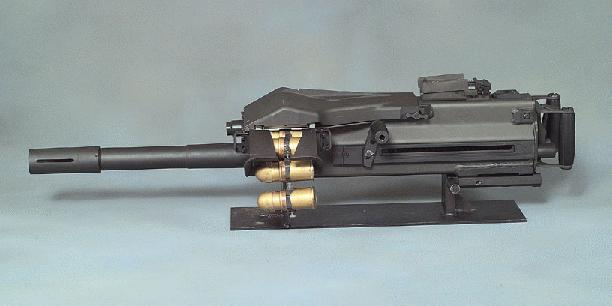 Mk19 Mod3 grenade machine gun